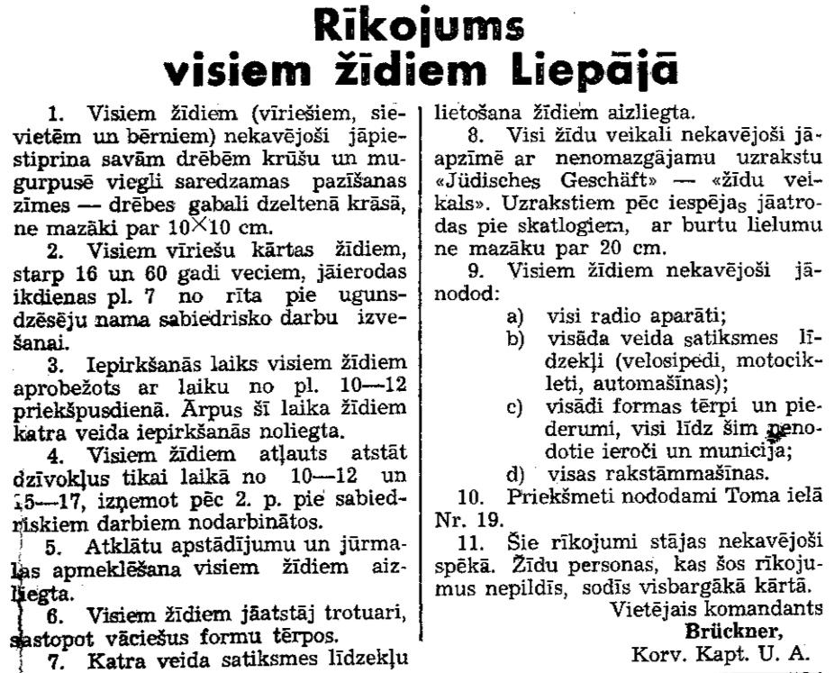 Published order (in Latvian) imposing restrictions on the Jews of Liepāja, Latvia, including the wearing of the yellow star.